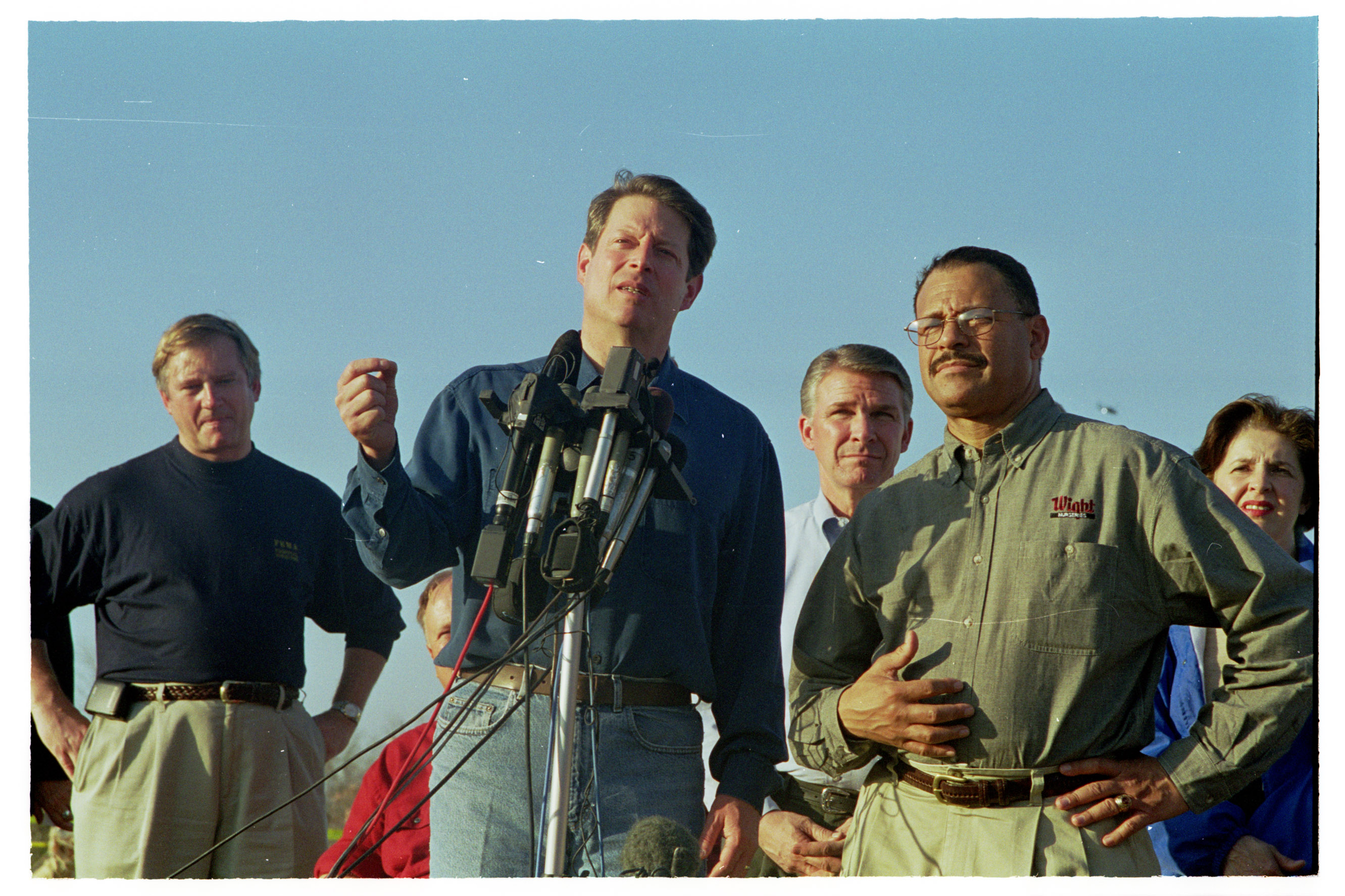 Camilla, GA February 17, 2000 -- Vice President Al Gore, FEMA Region 4 Director John Copenhaver, FEMA Director James Lee Witt, Congressman Bishop, and other officials give a message of hope to tornado victims. Photo by Liz Roll